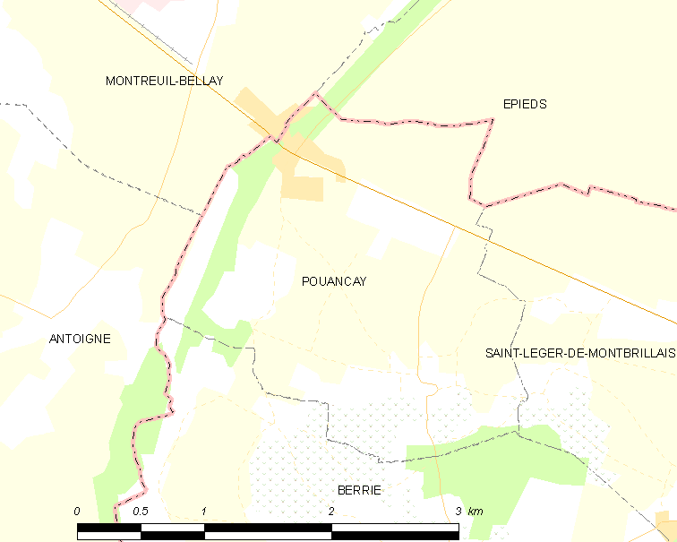 Map of French municipality Pouançay